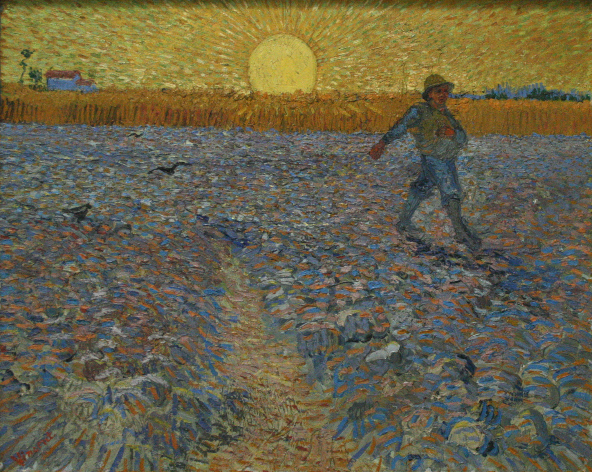 The sower